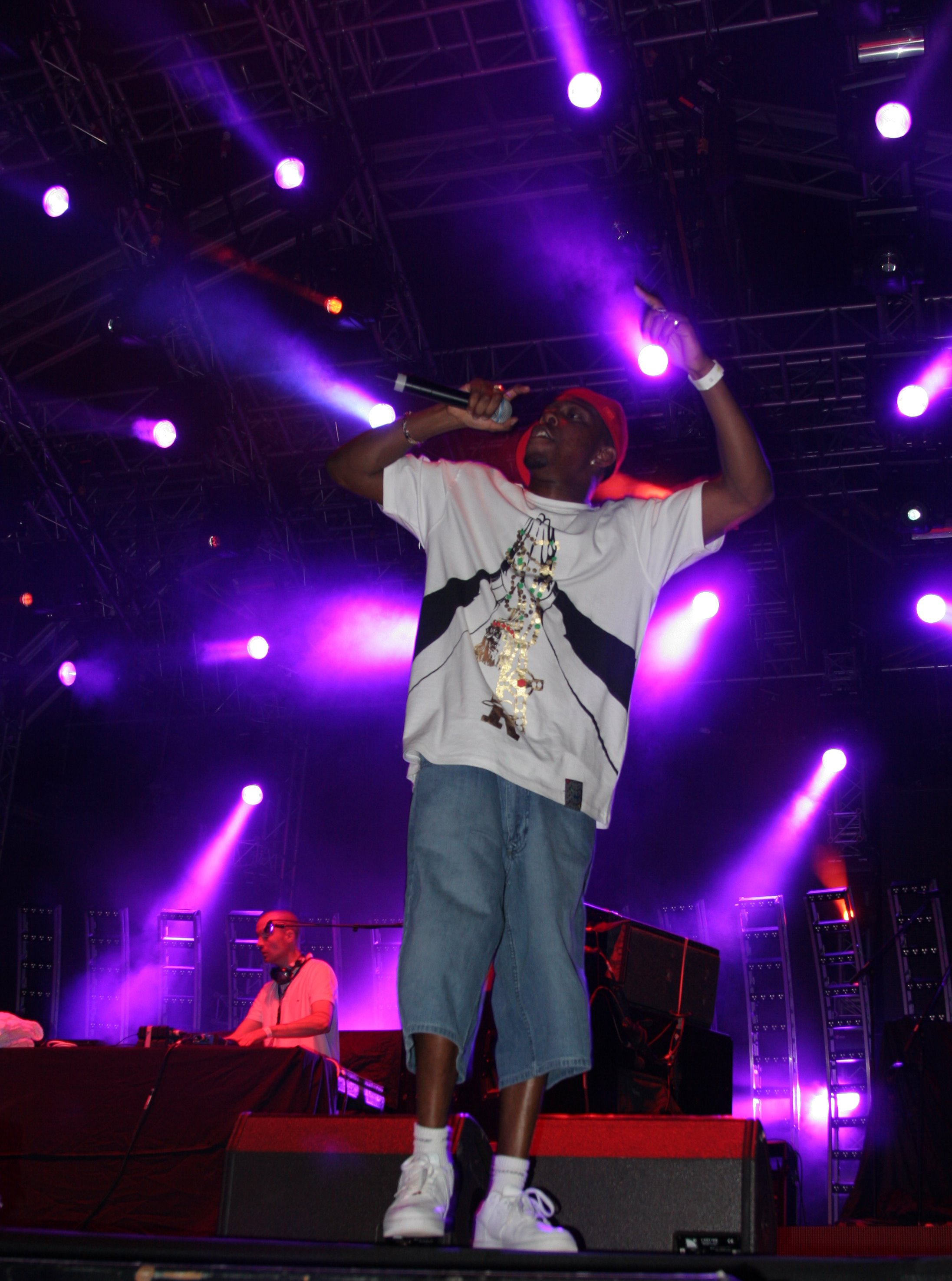 Dizzee Rascal at the Barcelona Weekend Dance.